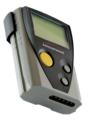 Swissphone DE900 Pager